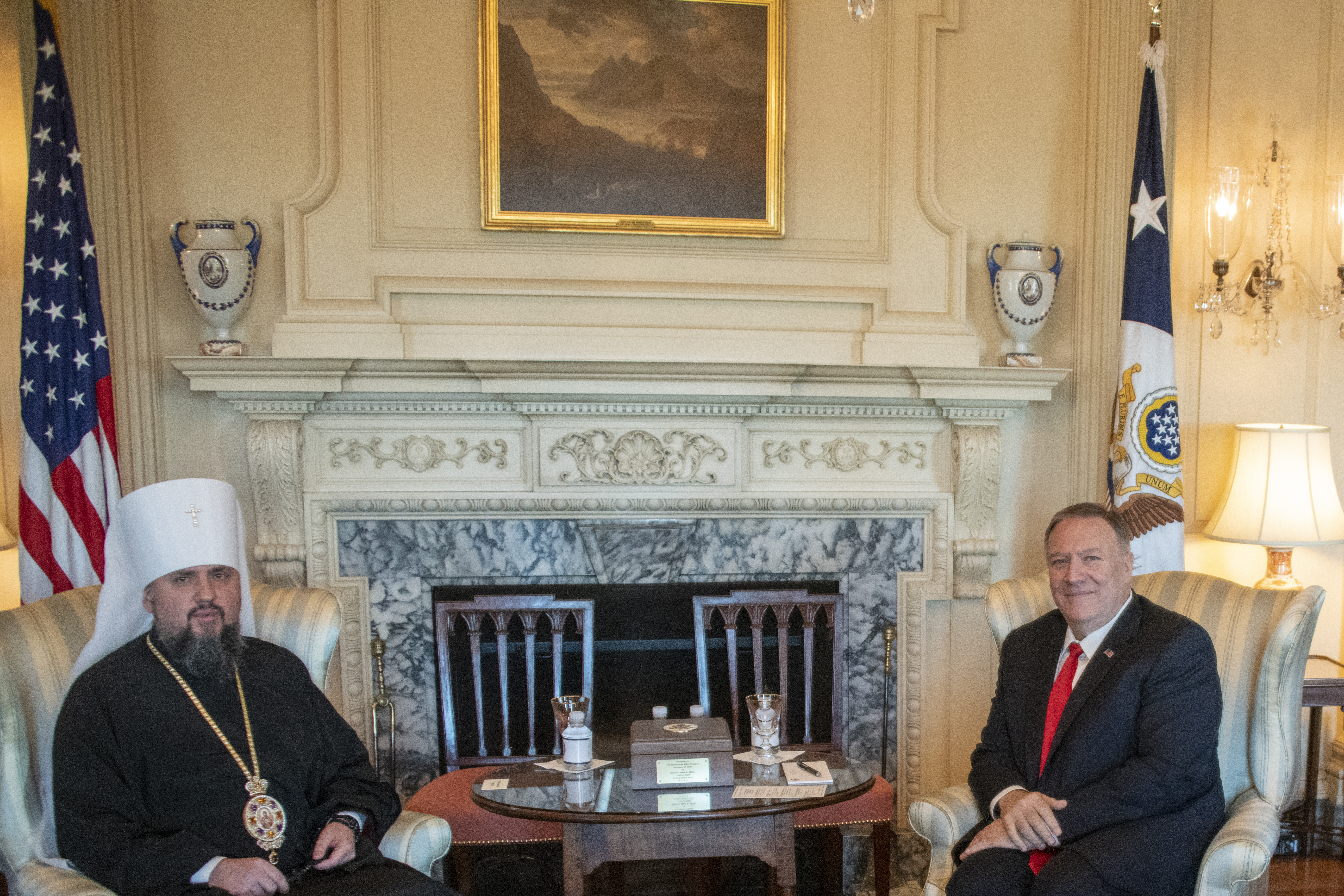 Secretary of State Michael R. Pompeo meets with Primate of the Orthodox Church of Ukraine Metropolitan Epiphaniy, at the U.S. Department of State in Washington, D.C., on October 23, 2019. [State Department photo by Freddie Everett/ Public Domain]